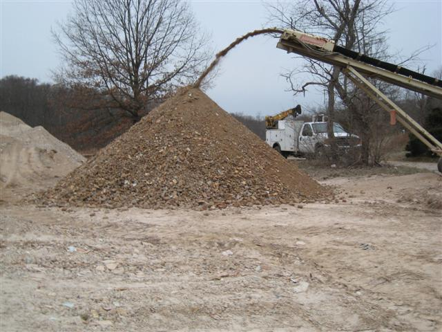 The bricks that made up Stickel Laboratory are ground into smaller pieces.